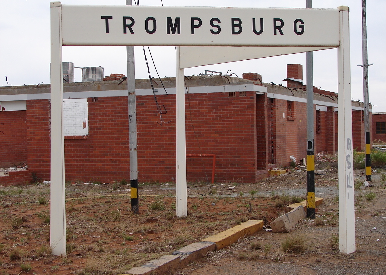 Trompsburg station, Free State